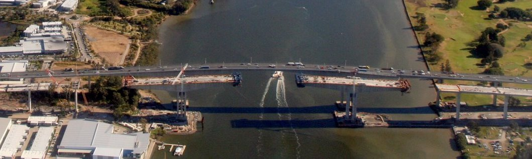 Photographer: Paul Guard